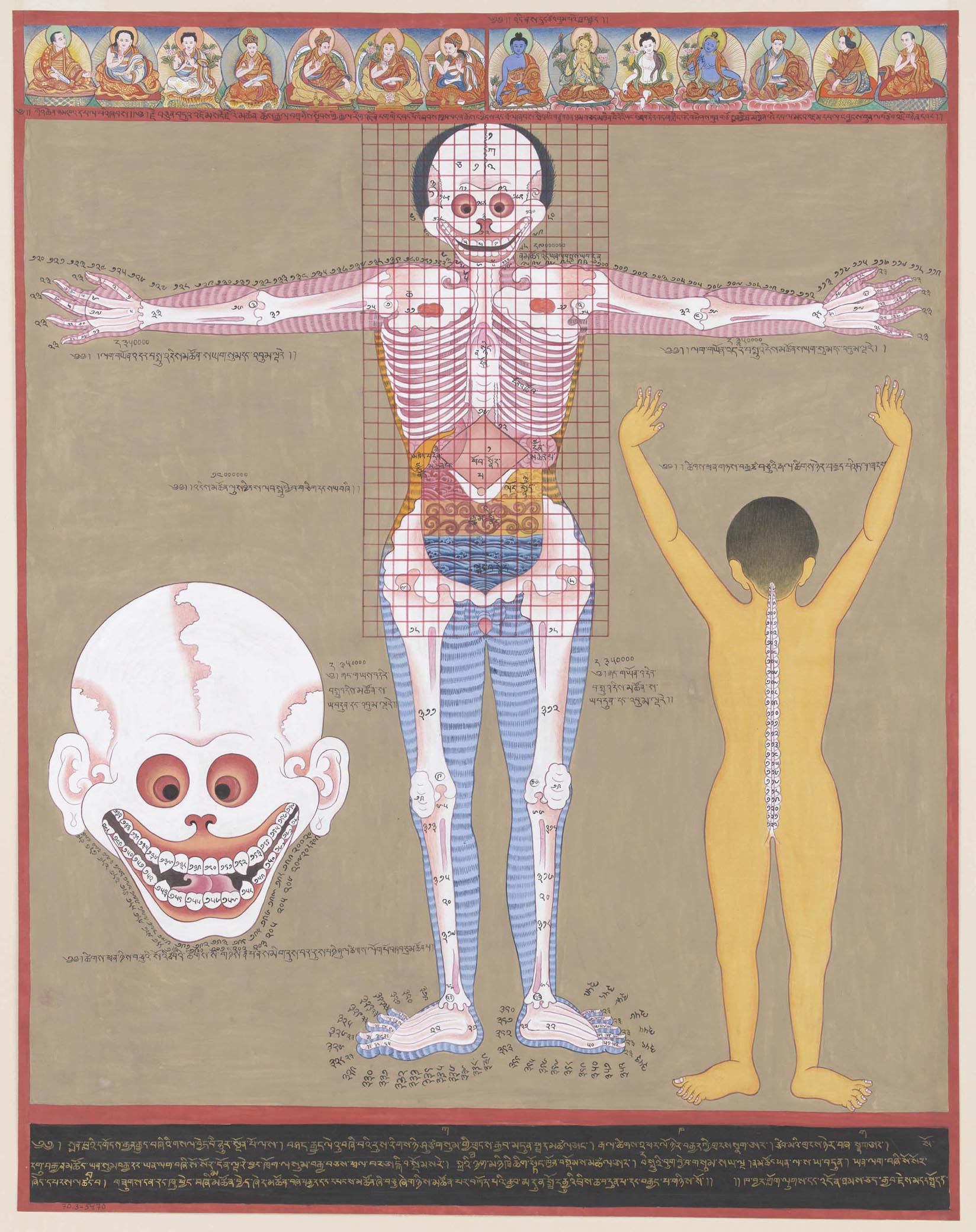 The Blue Beryl - anatomy plate